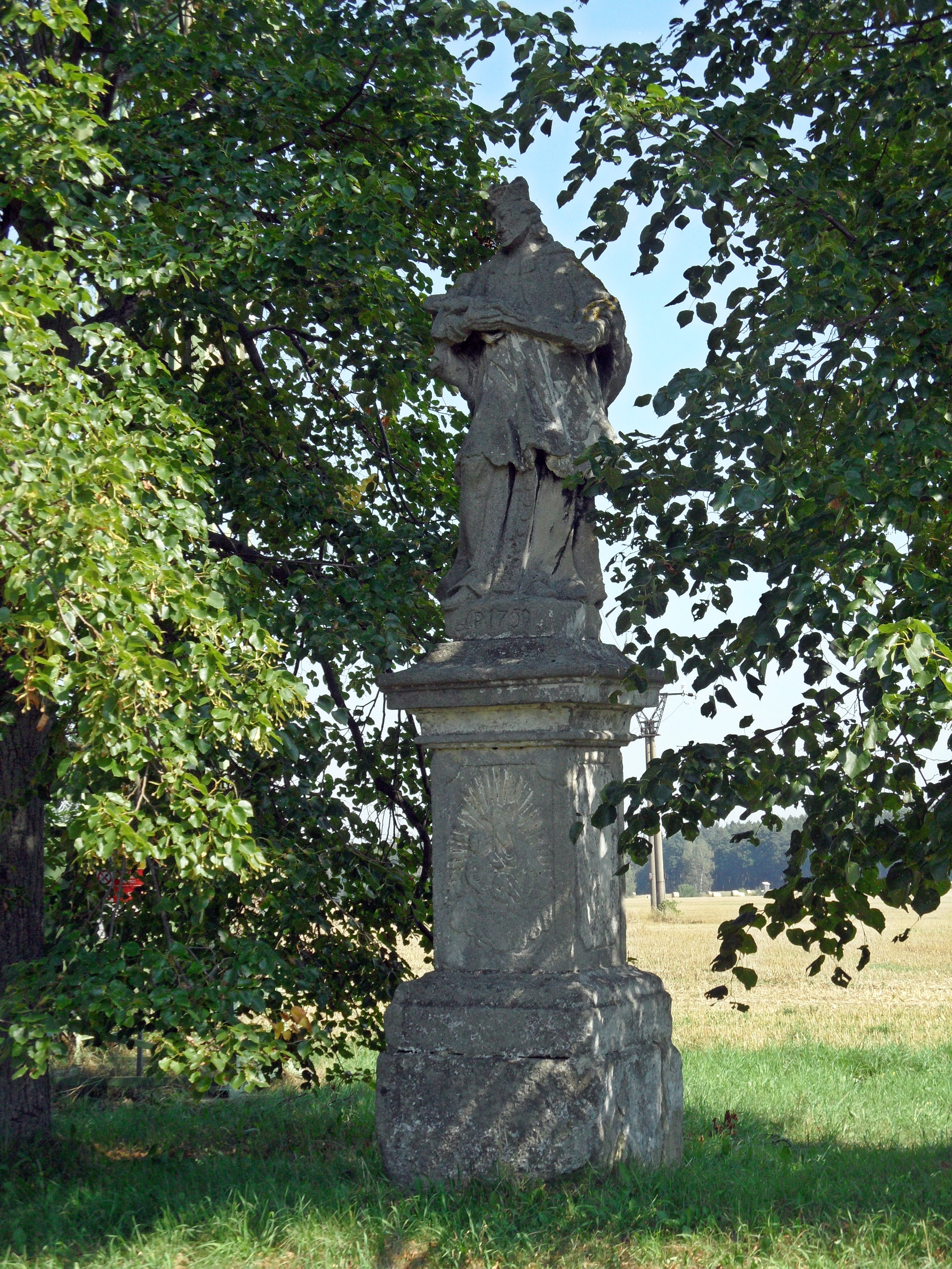 Damírov A. Statue of John of Nepomuk: Overview. Kutná Hora District, the Czech Republic.